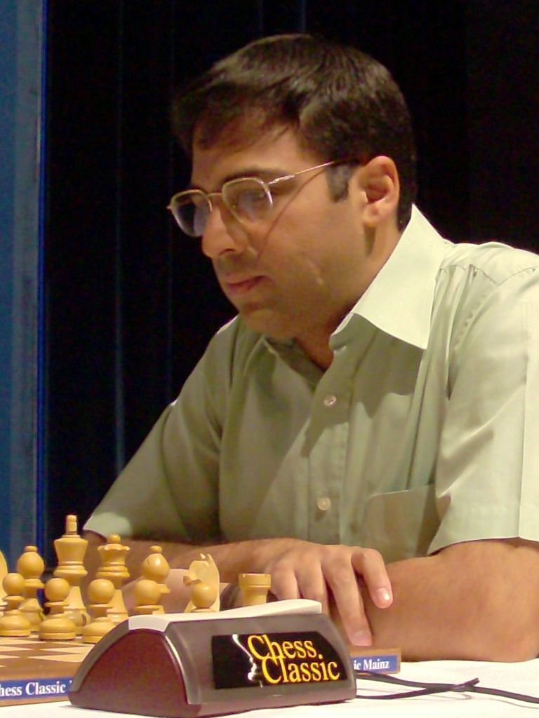 Viswanathan Anand, world chess champion